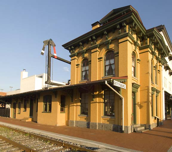 The Gettysburg Railroad Station in Gettysburg, Pennsylvania, where Abraham Lincoln arrived before delivering the Gettysburg Address